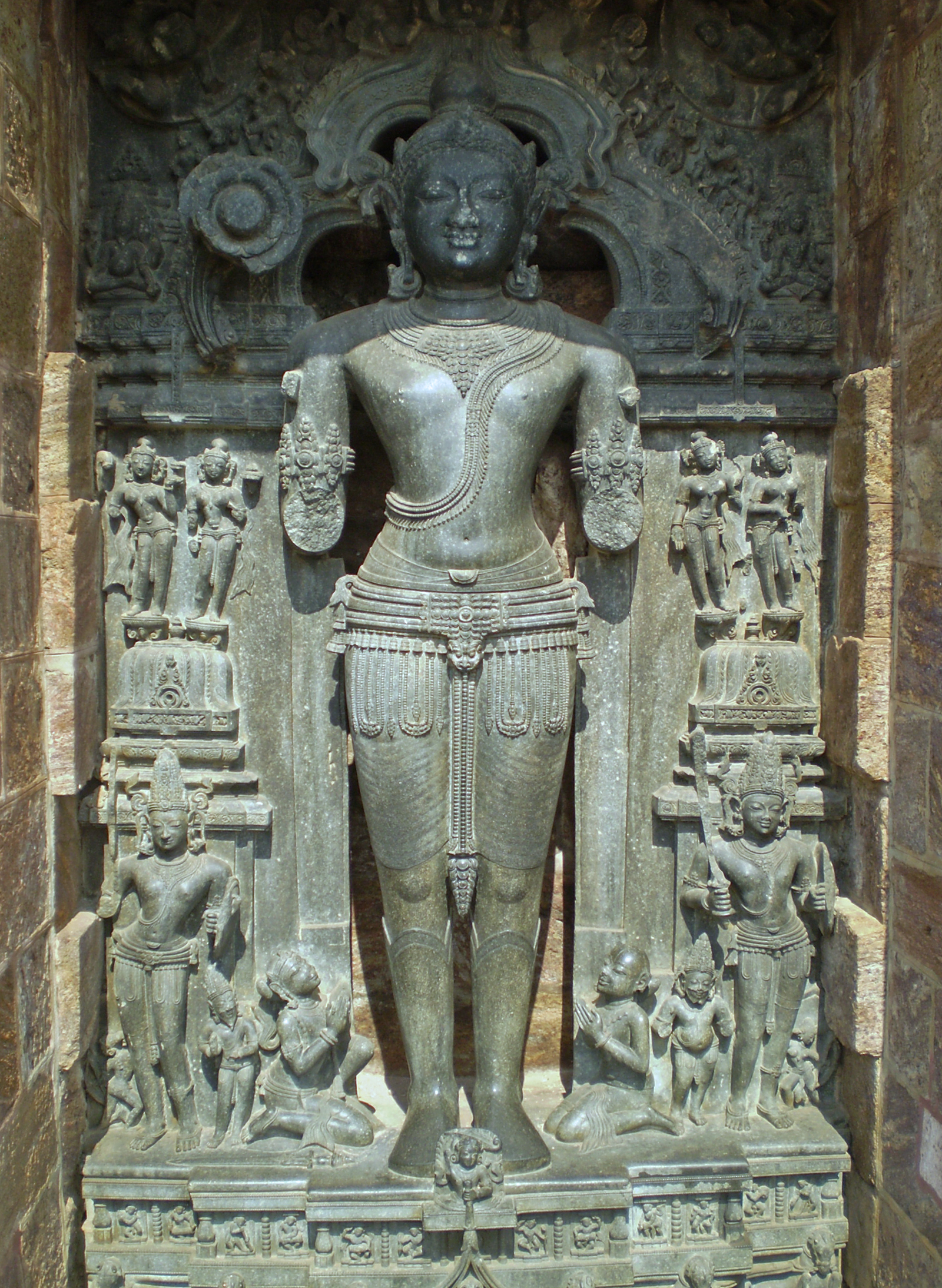 Statue of the Sun God Surya in the Sun Temple in Konark, Orissa, India.